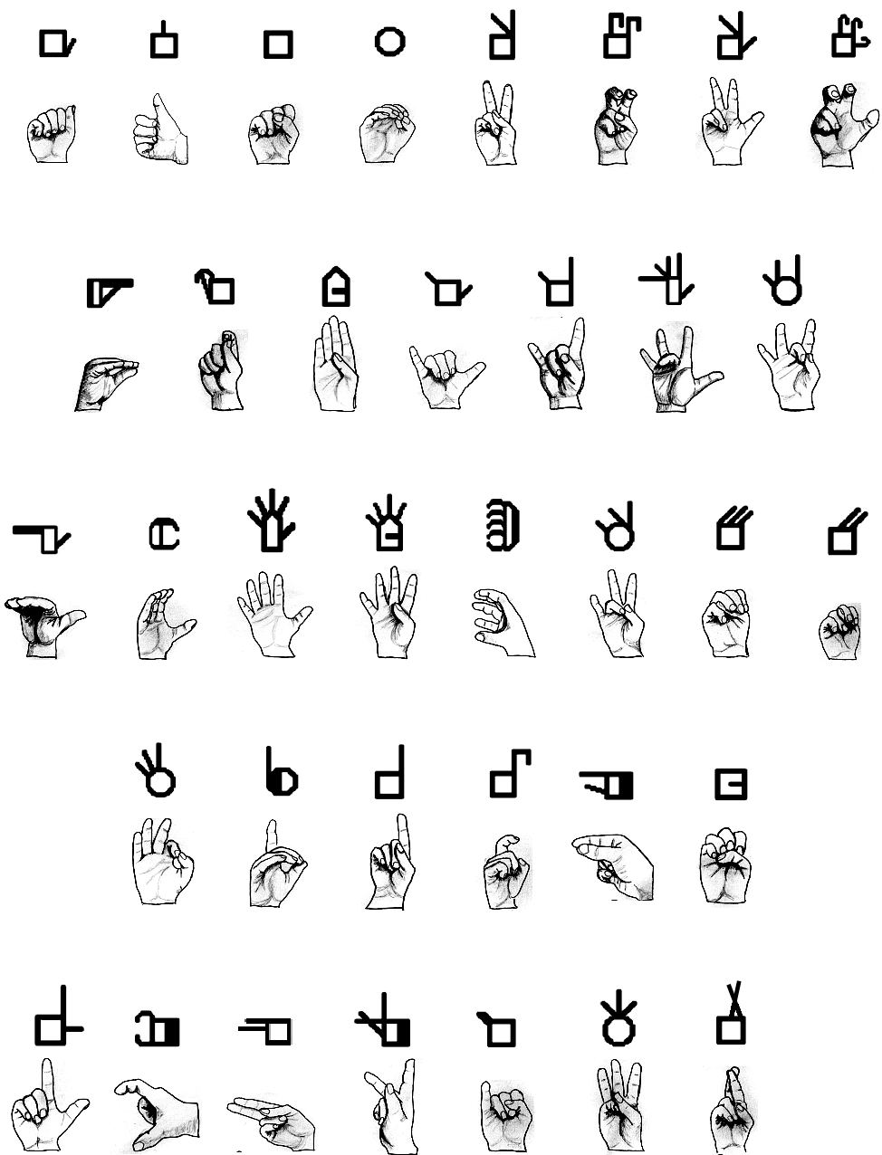 A diagram of handshapes and their signwriting equivalents. Handshape pictures are traced from photographs of my own hand. Cwterp